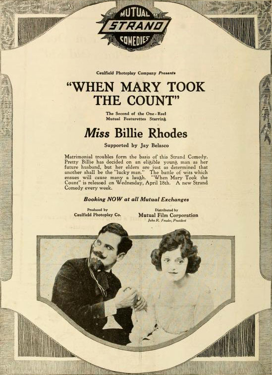 Advertisement in Moving Picture Worldfor the American film When Mary Took the Count (1917) with Jay Belasco and Billie Rhodes.